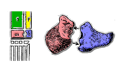 Primitive mesotarsal ankle, in early archosaurs